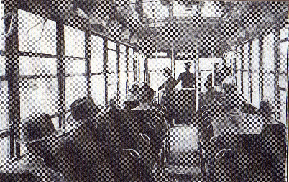 Inside photo of tramway vehicle of Kobe city transportation bureau taken in 1937. The car was called "Romance car".